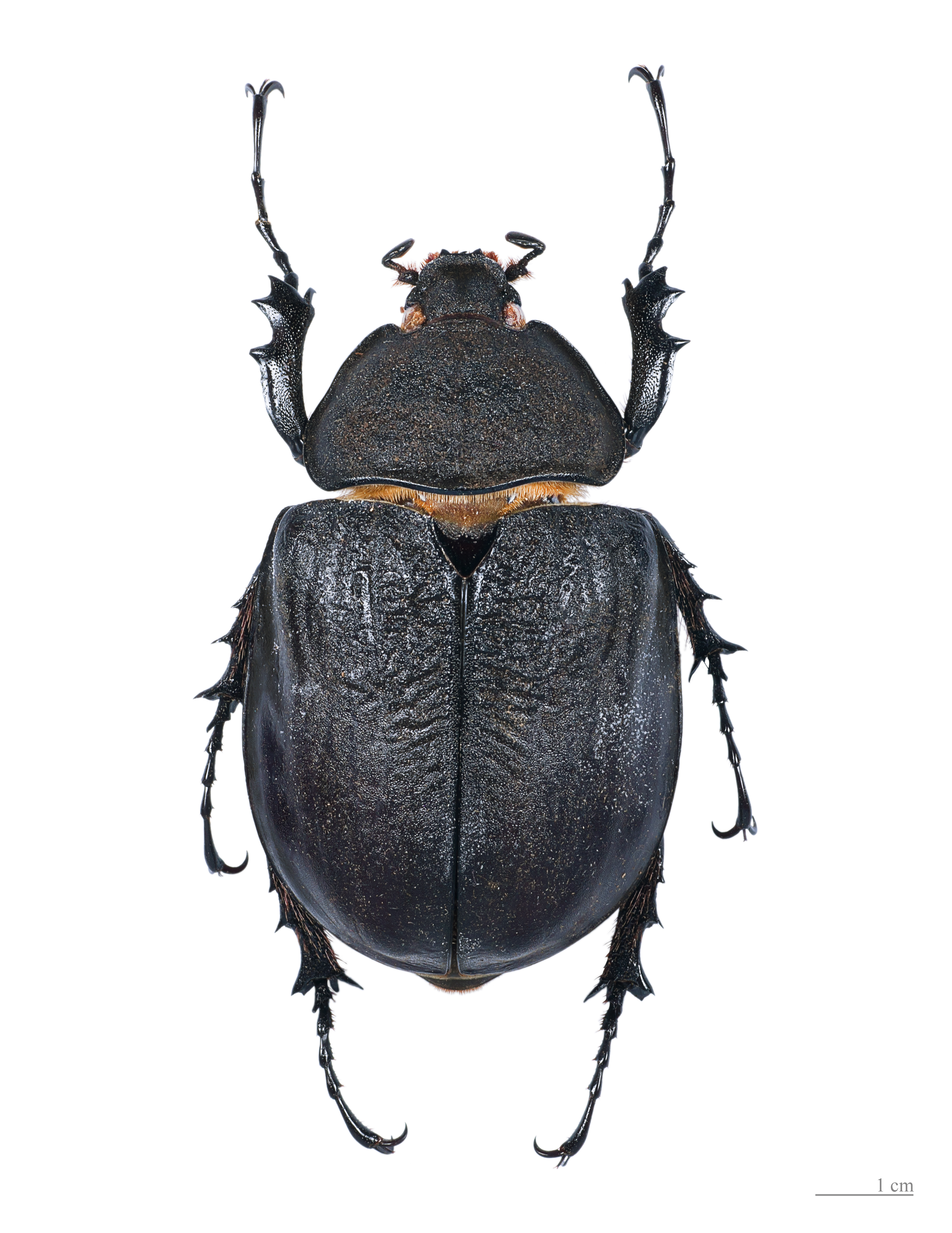 ♀ Locality : Cacao, Mont Table, French Guiana.